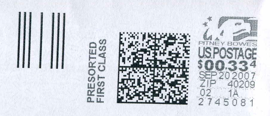 A U.S. Presorted First Class postage meter marking made with a Pitney Bowes mailstream system (detail). 2007.